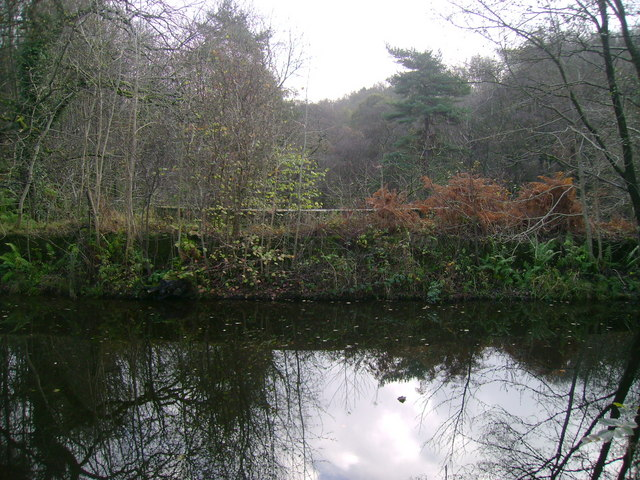 Forth and Clyde canal passing over Red Burn The Forth and Clyde canal is carried over Red Burn by an aqueduct. The Red Burn descends the steep-sided, tree-lined glen in the background to pass under the canal.